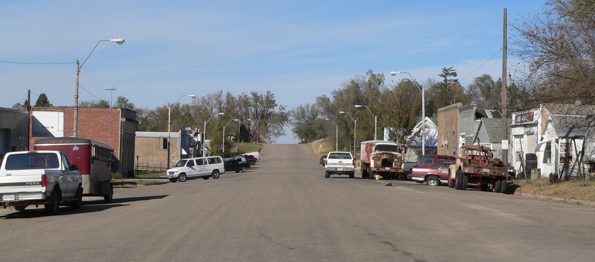 Downtown Craig, Nebraska: Main Street, looking north from about Pleasant Avenue.